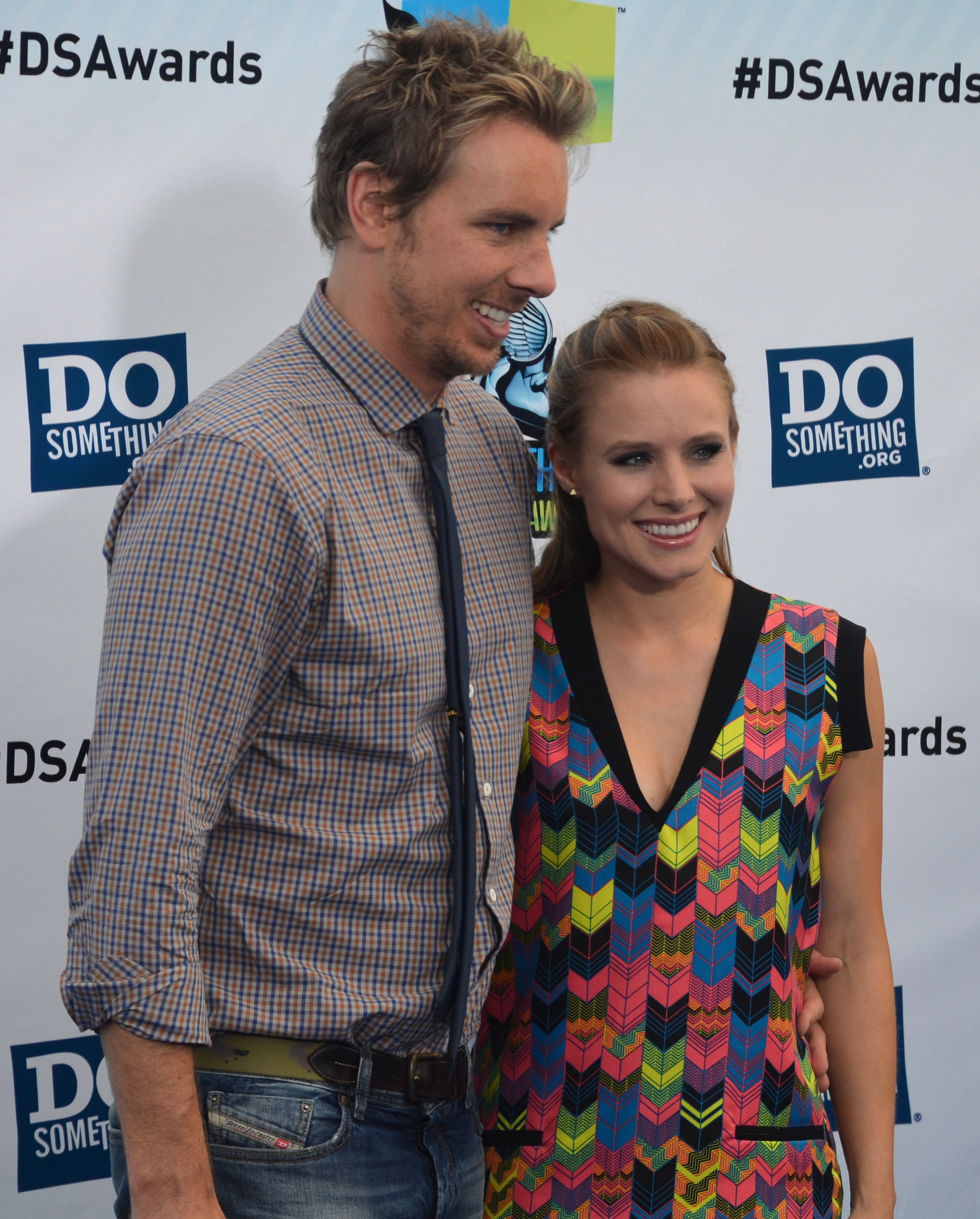 Kristen Bell & Dax Shepard at the 2012 Do Something Awards #DSAwards.